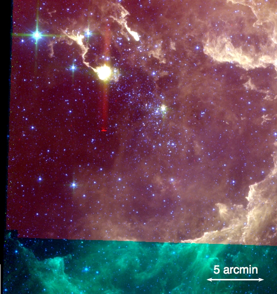 Spitzer IRAC mosaic of NGC 1893 star-forming region. Red: 8µm; Green: 5.8µm; Blue: 3.6µm